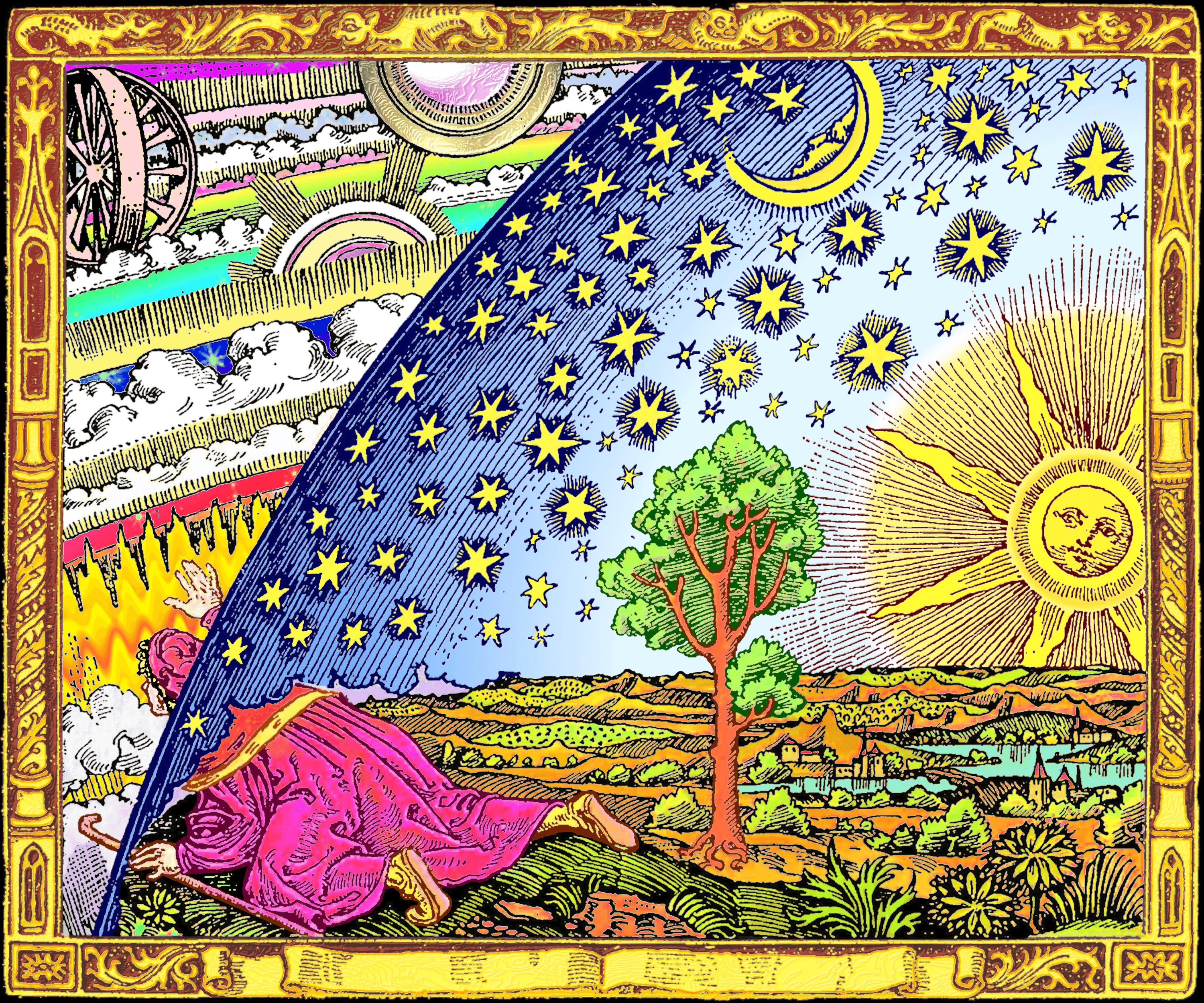 A colored-in version of the famed 1888 black-and-white Flammarion engraving called "Universum". I accepted the usual colors of land, water, sky, and sun seen in many other colorations - though with more tonal variations and gradiants for visual interest - but colored in the *lines* as well to more fully color sky, tree, sun, and protagonist. Then I thought the secret outer universe should be the wildest part.... .Raven (talk) 03:49, 28 April 2015 (UTC)